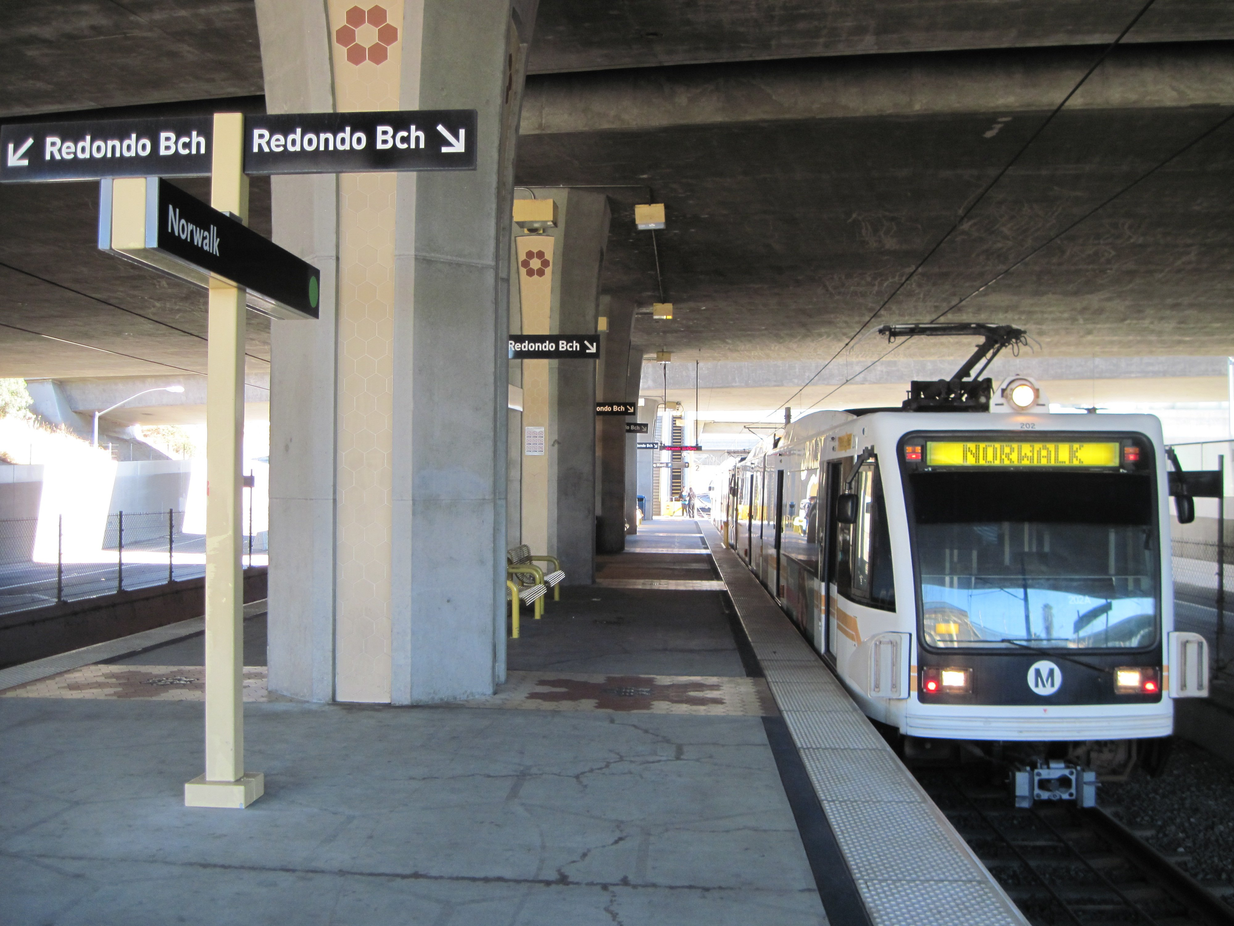 A train waits to depart for Redondo Beach at the Los Angeles County Metropolitan Transportation Authority's Norwalk station, serving the Metro Green Line in Norwalk, California, USA.